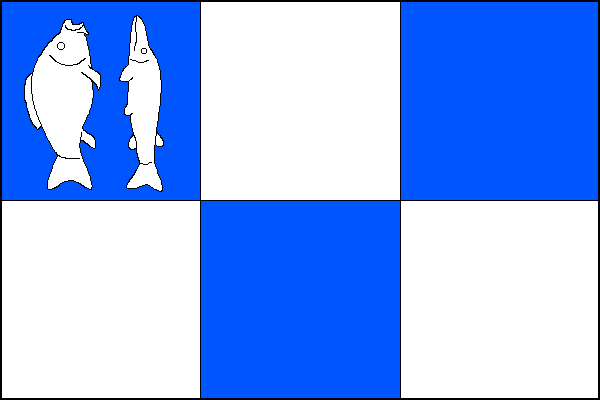 Municipal flag of Litovel town, Olomouc District, Czech Republic.